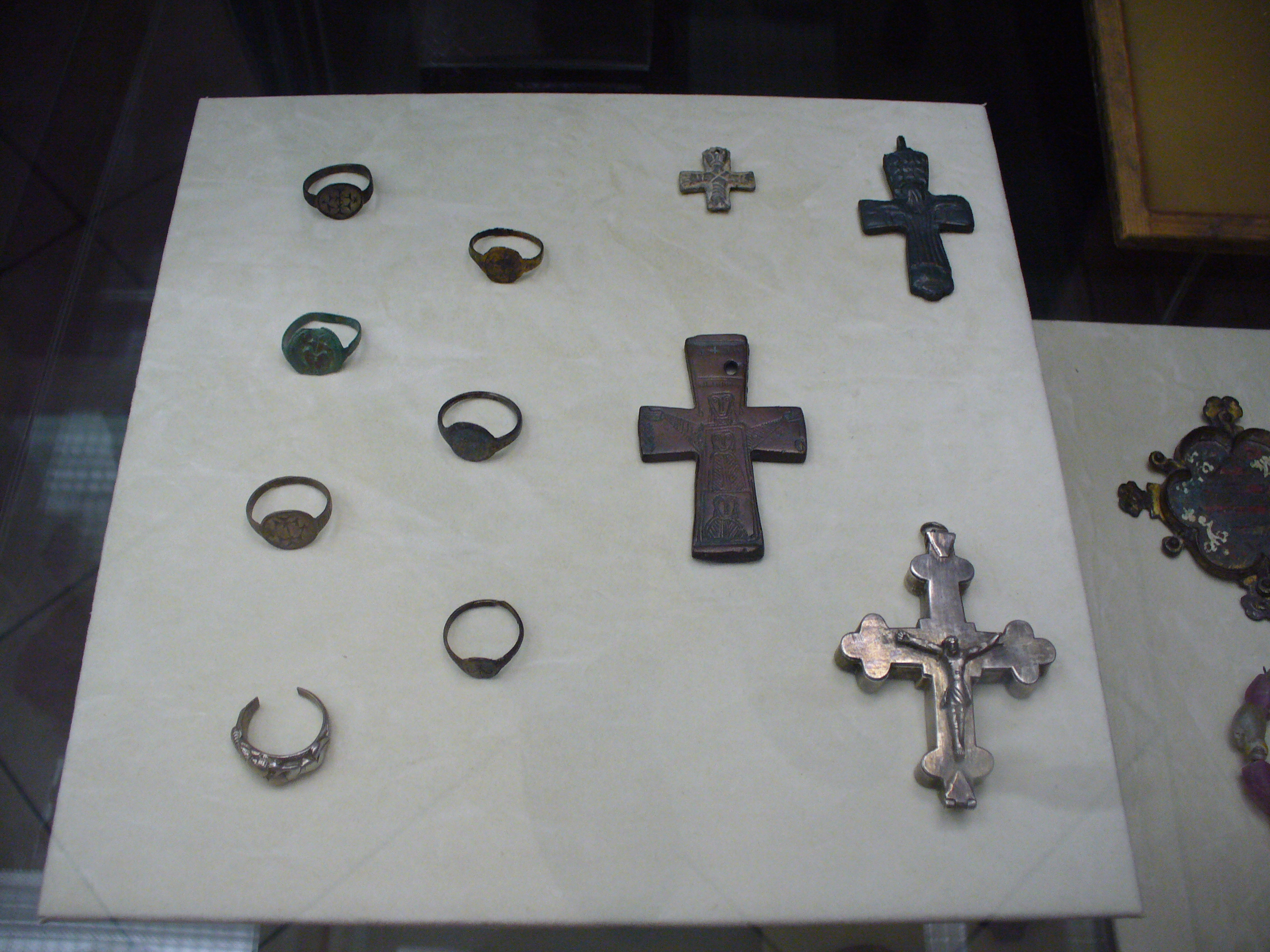 Great Moravia jewelry.